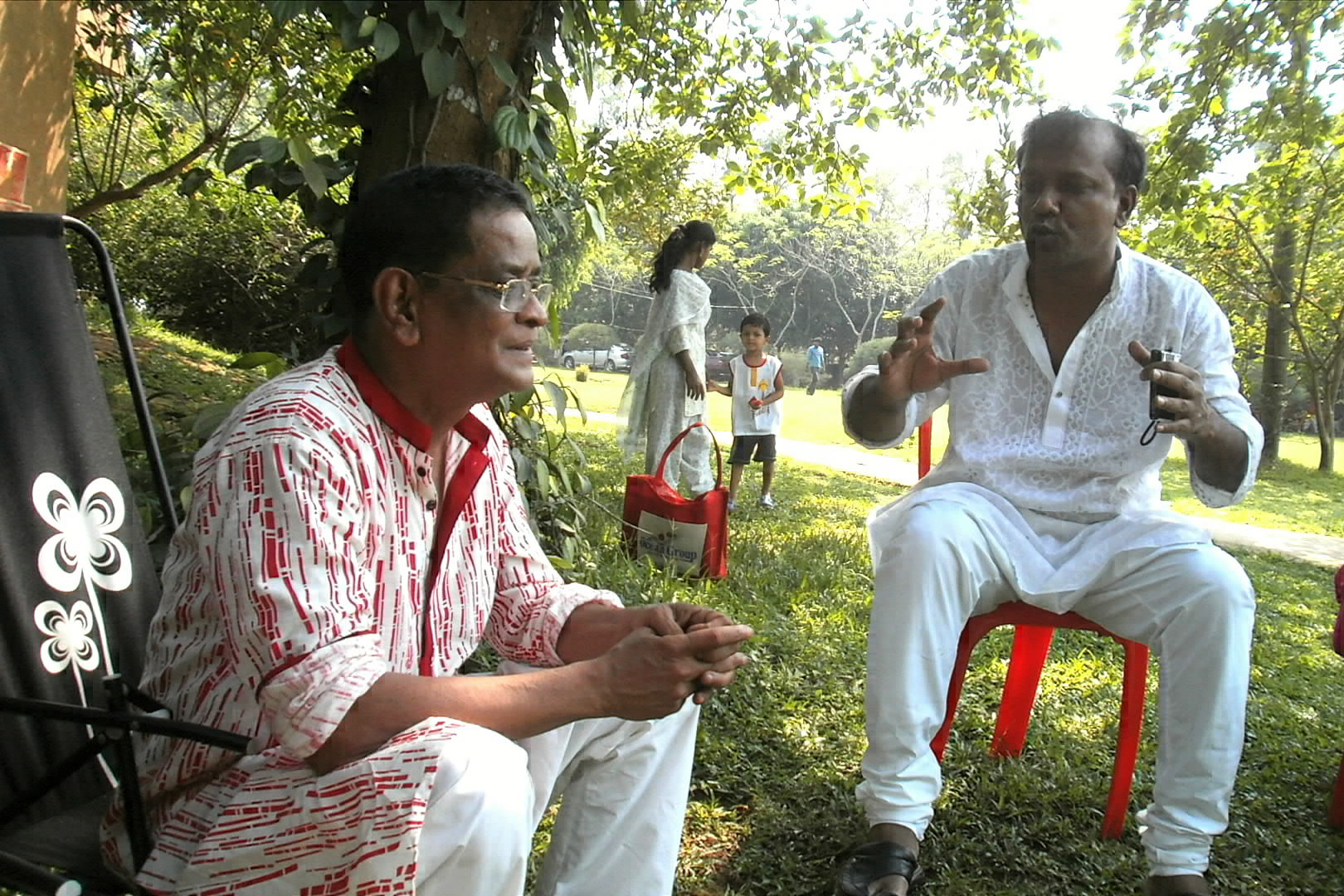 Humayun Ahmed chatting at nuhash polli